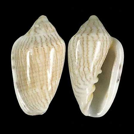 Species: Marginella piperata Hinds, 1844 (synonym : Marginella piperata f. strigata Sowerby III, 1889) data: False Bay to East London